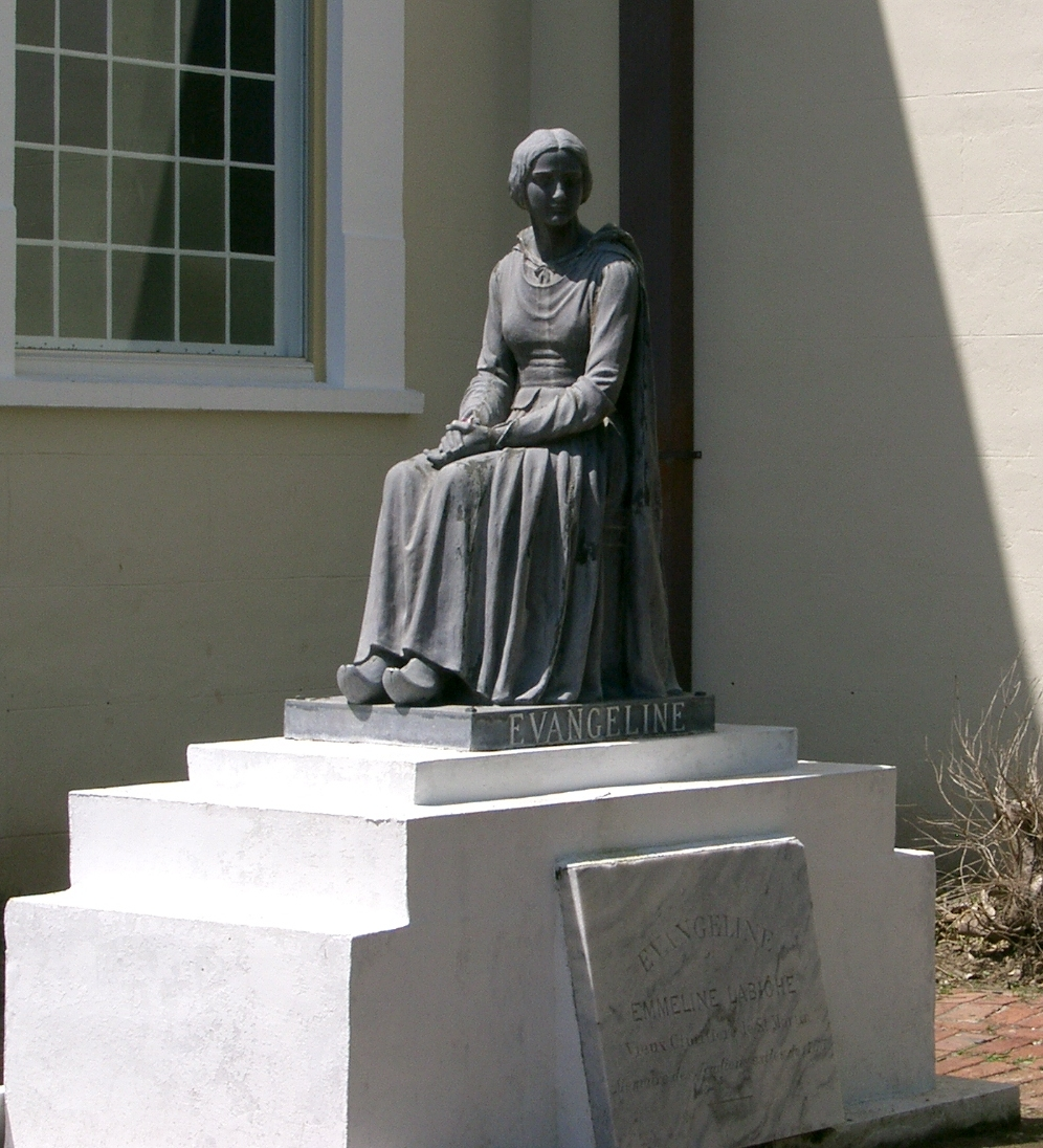 "Statue of Evangeline - heroine of the Acadian deportation - to Saint Martinville in Louisiana." Headstone: "(name) Old Cemetery of St Martin. Memory of Acadians Exiled in 1755."